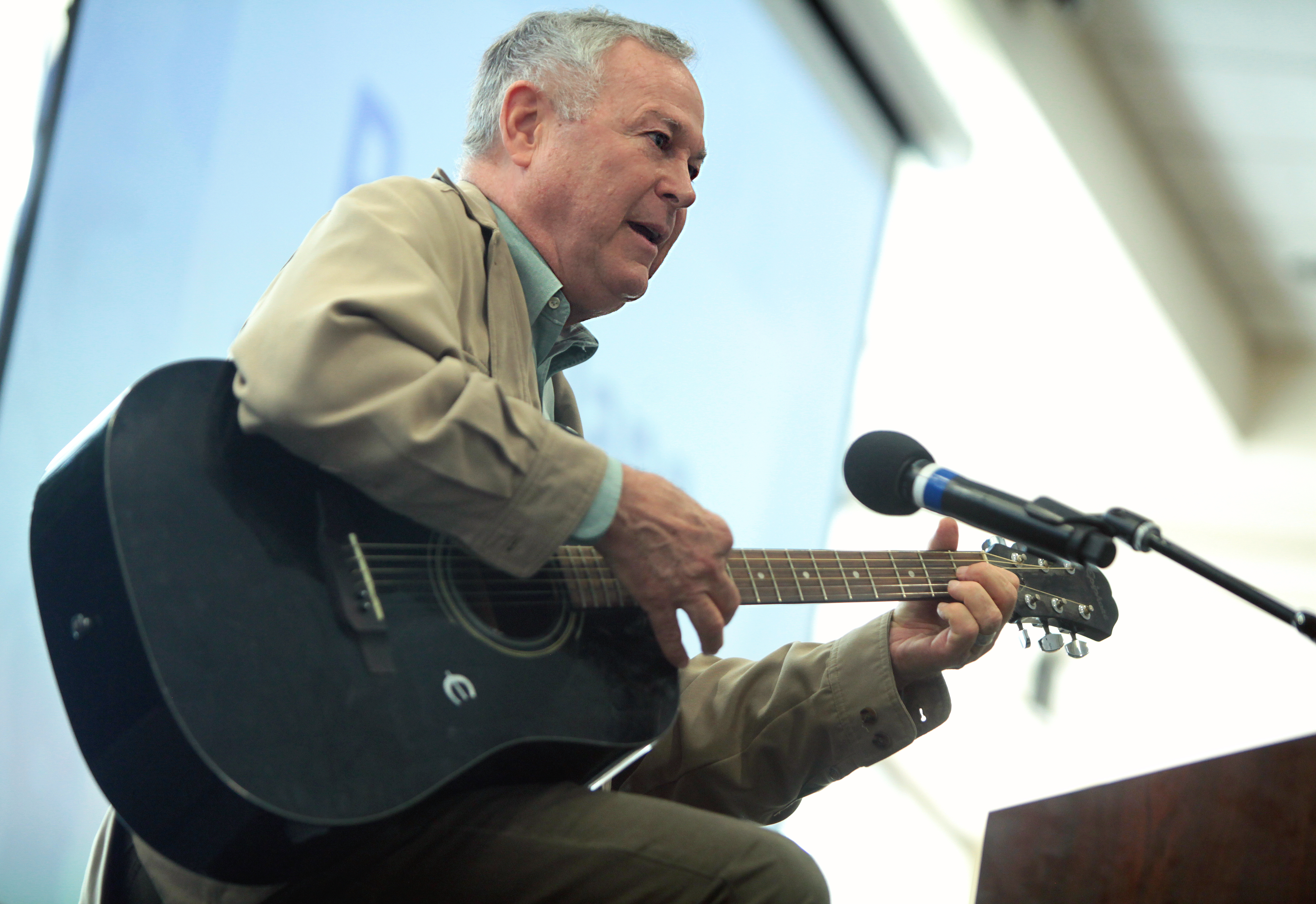 U.S. House of Representatives from California: 1989-present